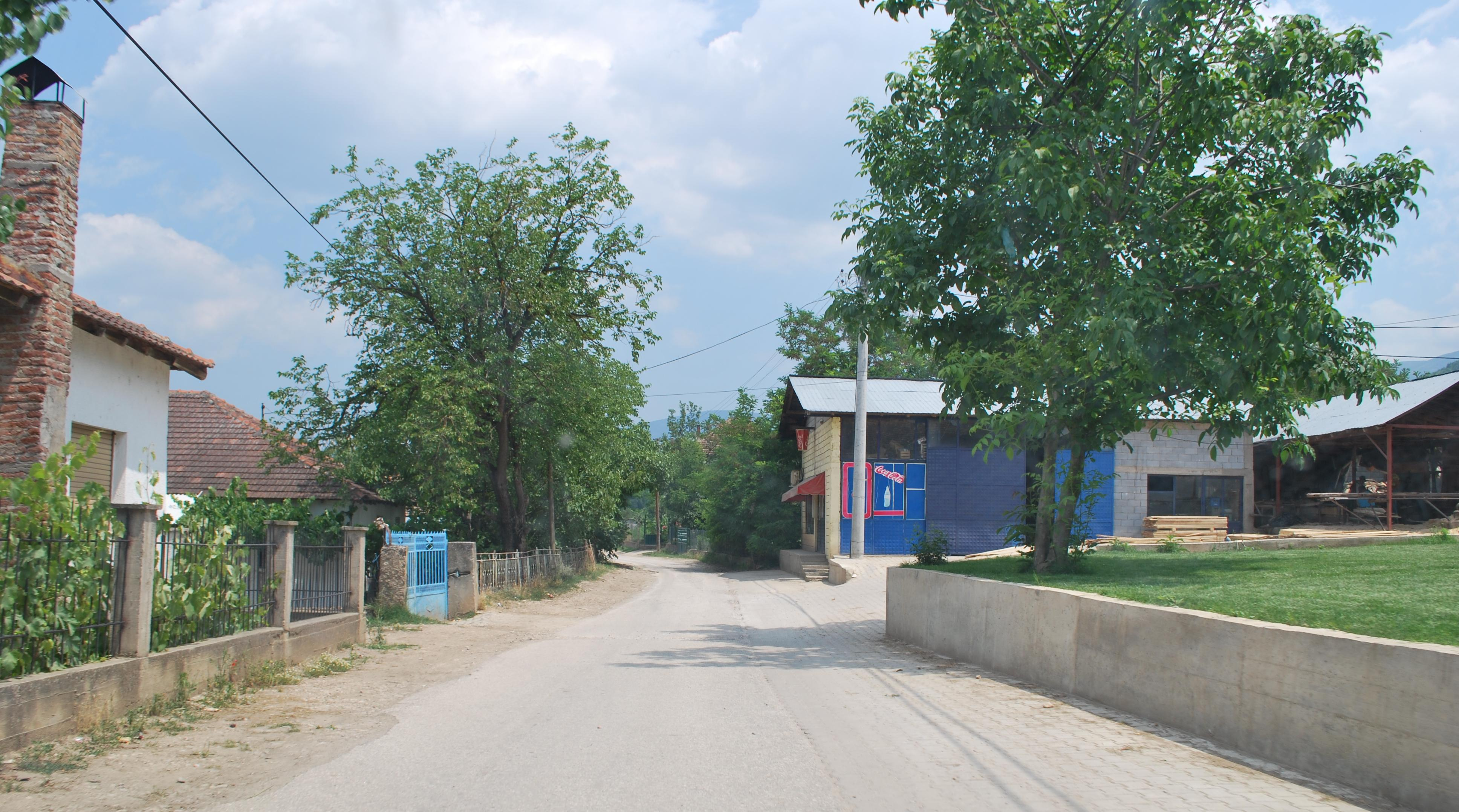 Siričino, Macedonia